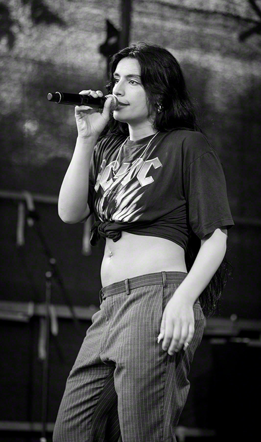 Sevdaliza performs at Piknik i Parken in Oslo on 25. June 2016.